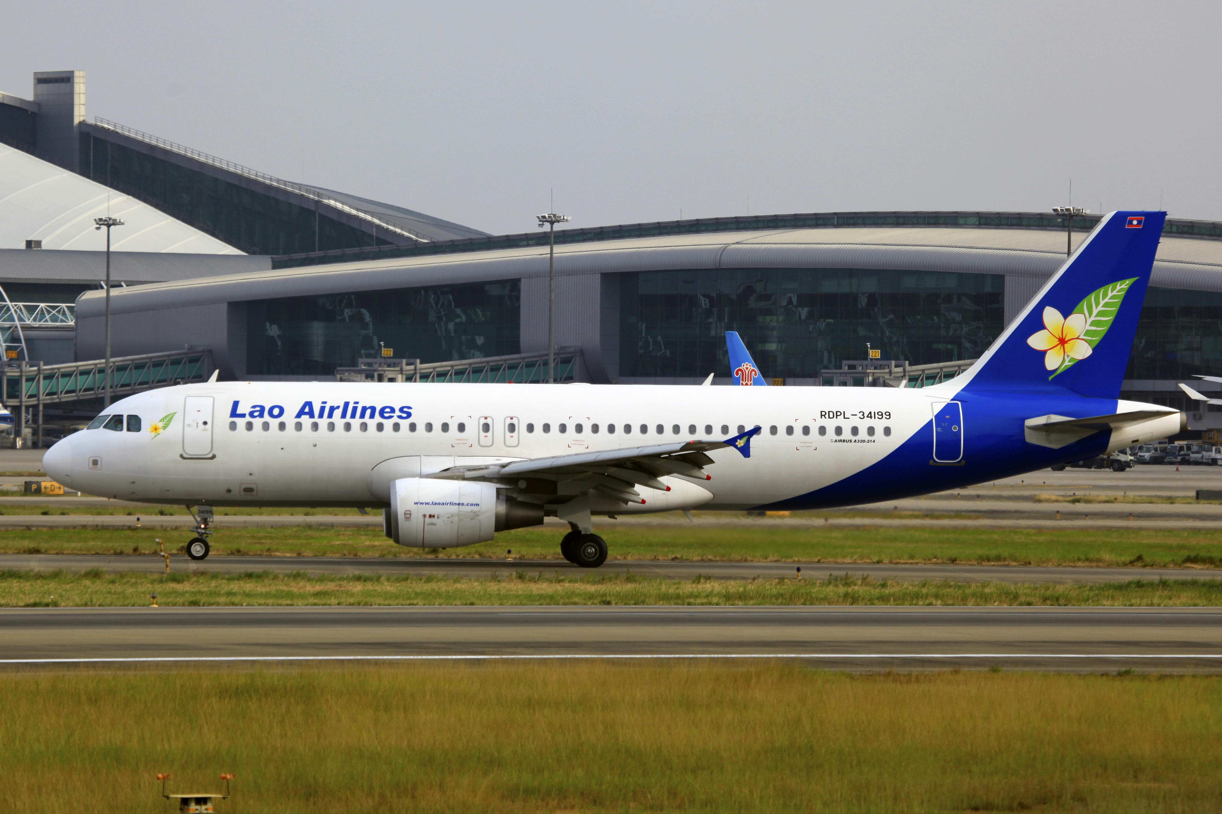 RDPL-34199 | Lao Airlines | Airbus A320-214 | Guangzhou Baiyun International Airport [CAN]